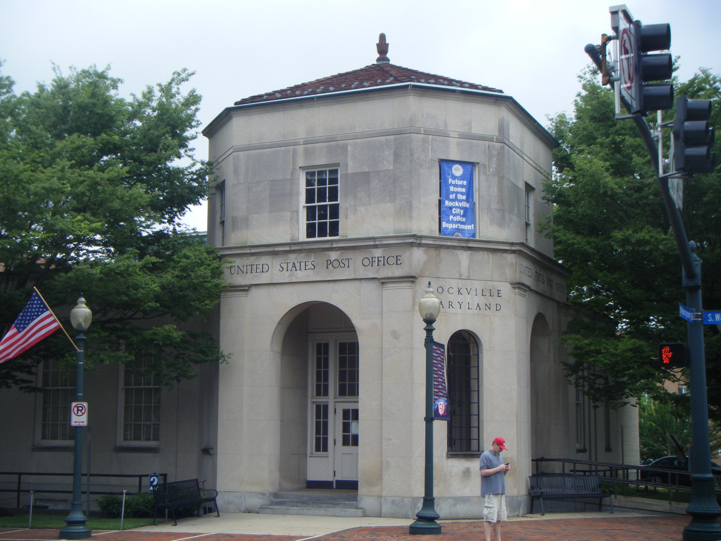 The old Rockville post office, built in 1939. It is planned to be converted into the new headquarters for the Rockville Police Department.